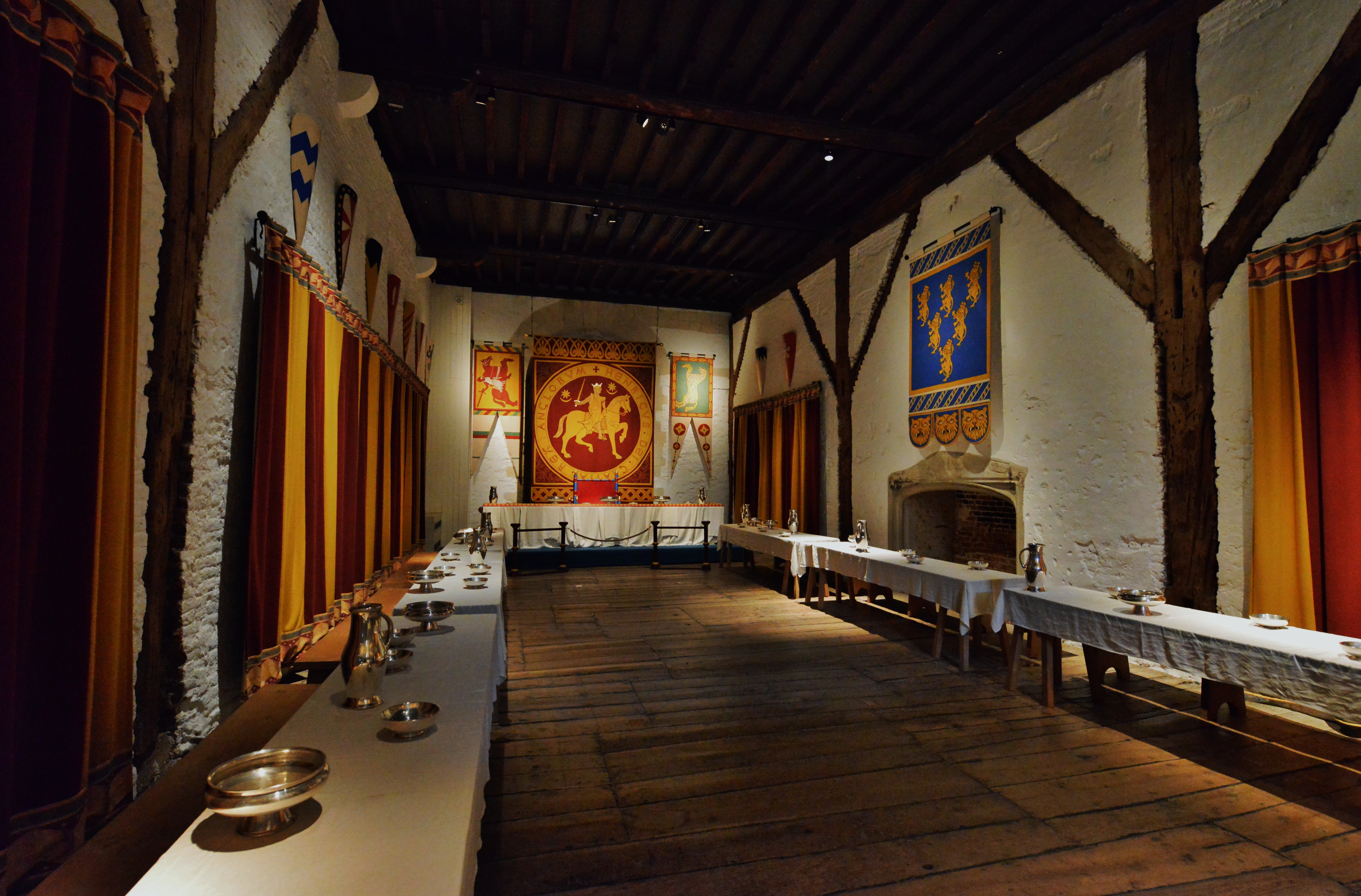 Photo by Michael Garlick